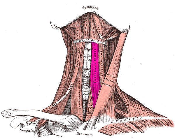 Sternohyoid muscle drawing from Grays' Anatomy